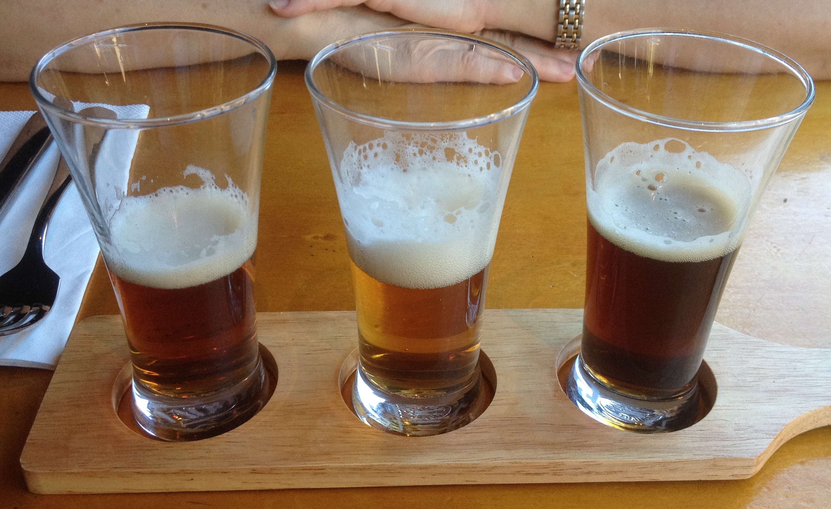 Story Bridge Hotel, Main Street, Kangaroo Point, Brisbane